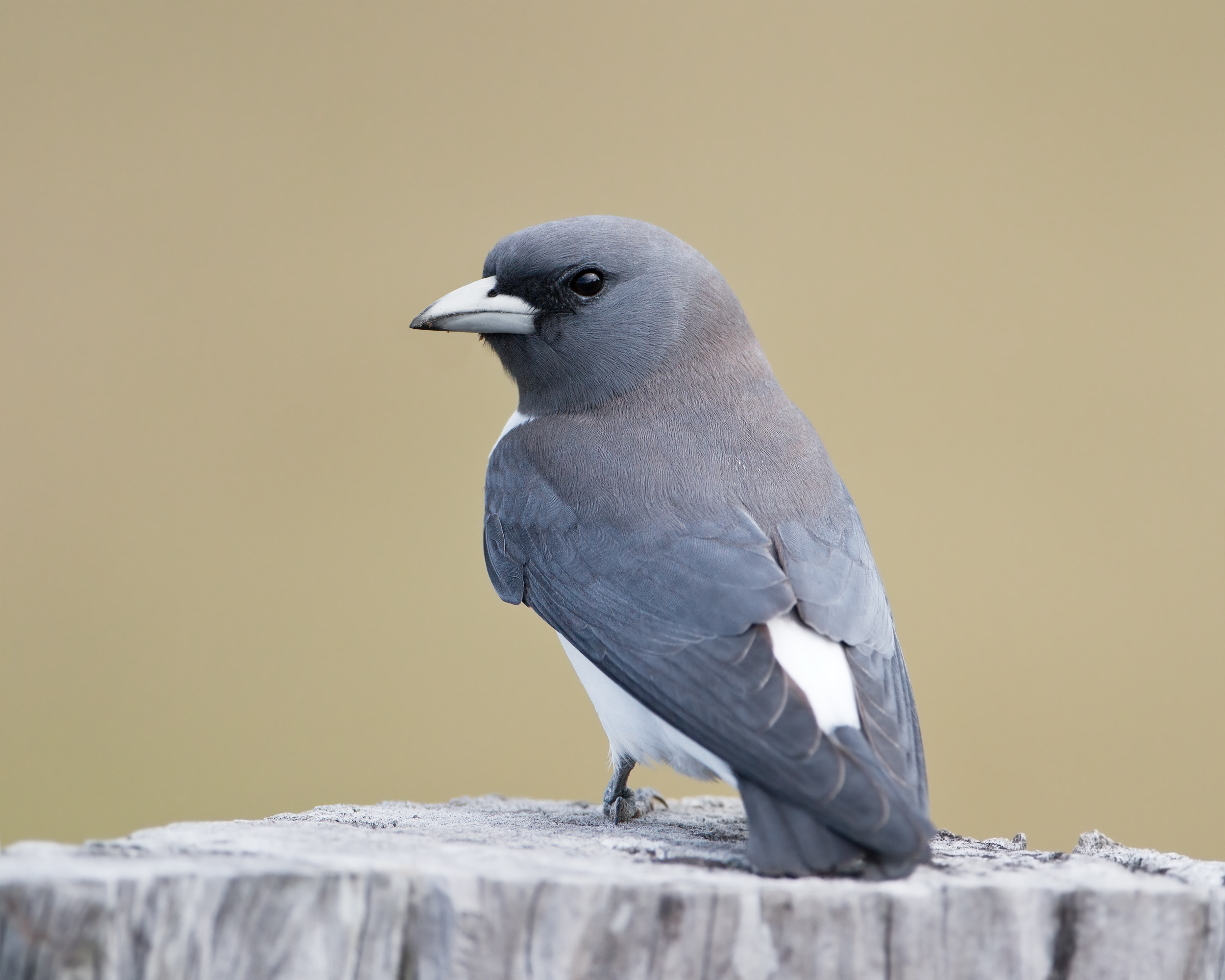 White-breasted Woodswallow (Artamus leucorynchus), Wonga, Queensland, Australia